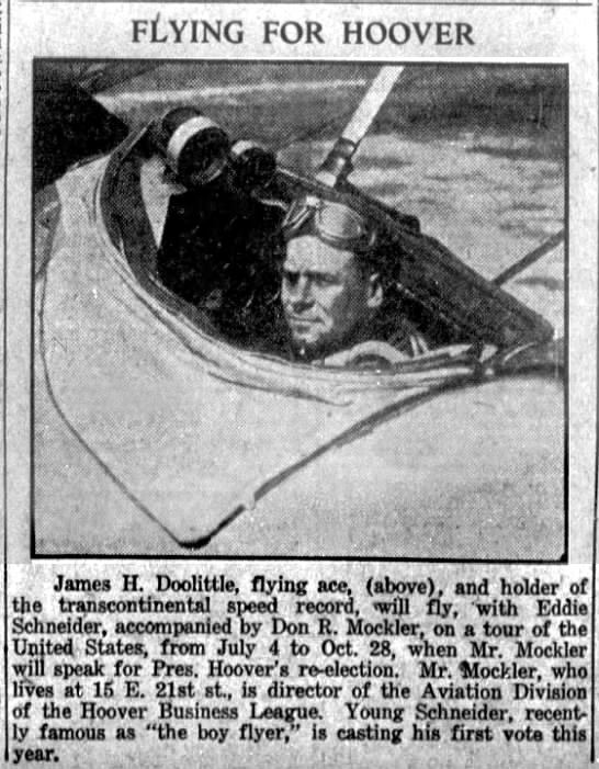 Eddie August Schneider (1911-1940) and Donald Ryan Mockler in the Times Union of Brooklyn, New York on 29 May 1932